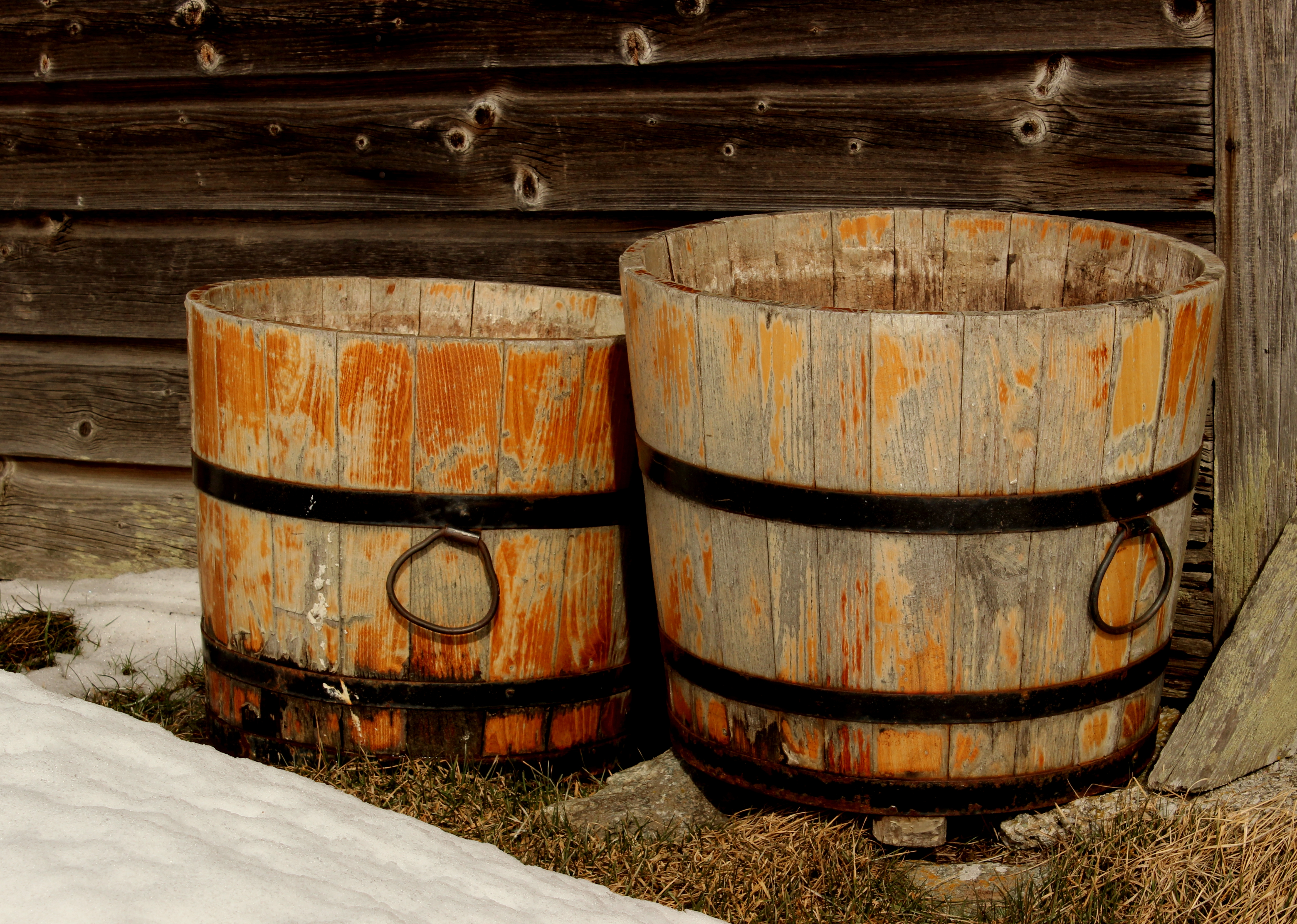 Two wooden tubs on a mountain chalet (Marienseer Schwaig, Hochwechsel, 1478 m.ü.A.)